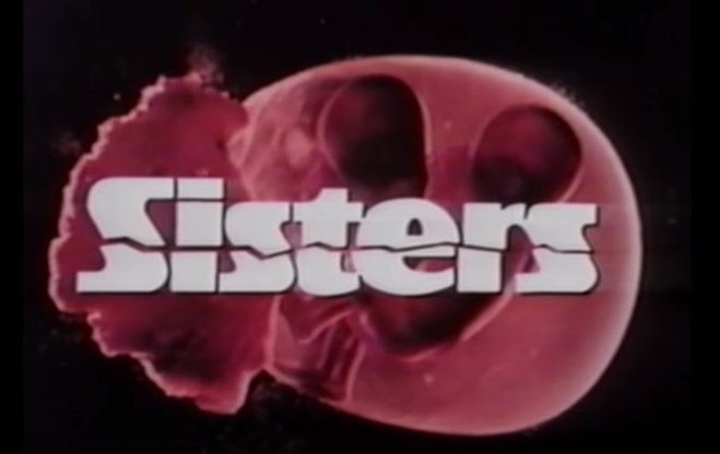 Title card from theatrical trailer of Sisters (1973)